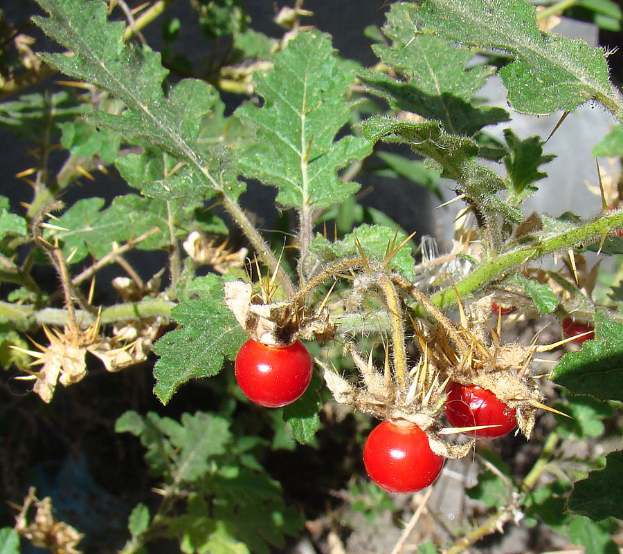 The tomatillos of this species known as Shoo Fly or Sticky Nightshade, are edible. In context at